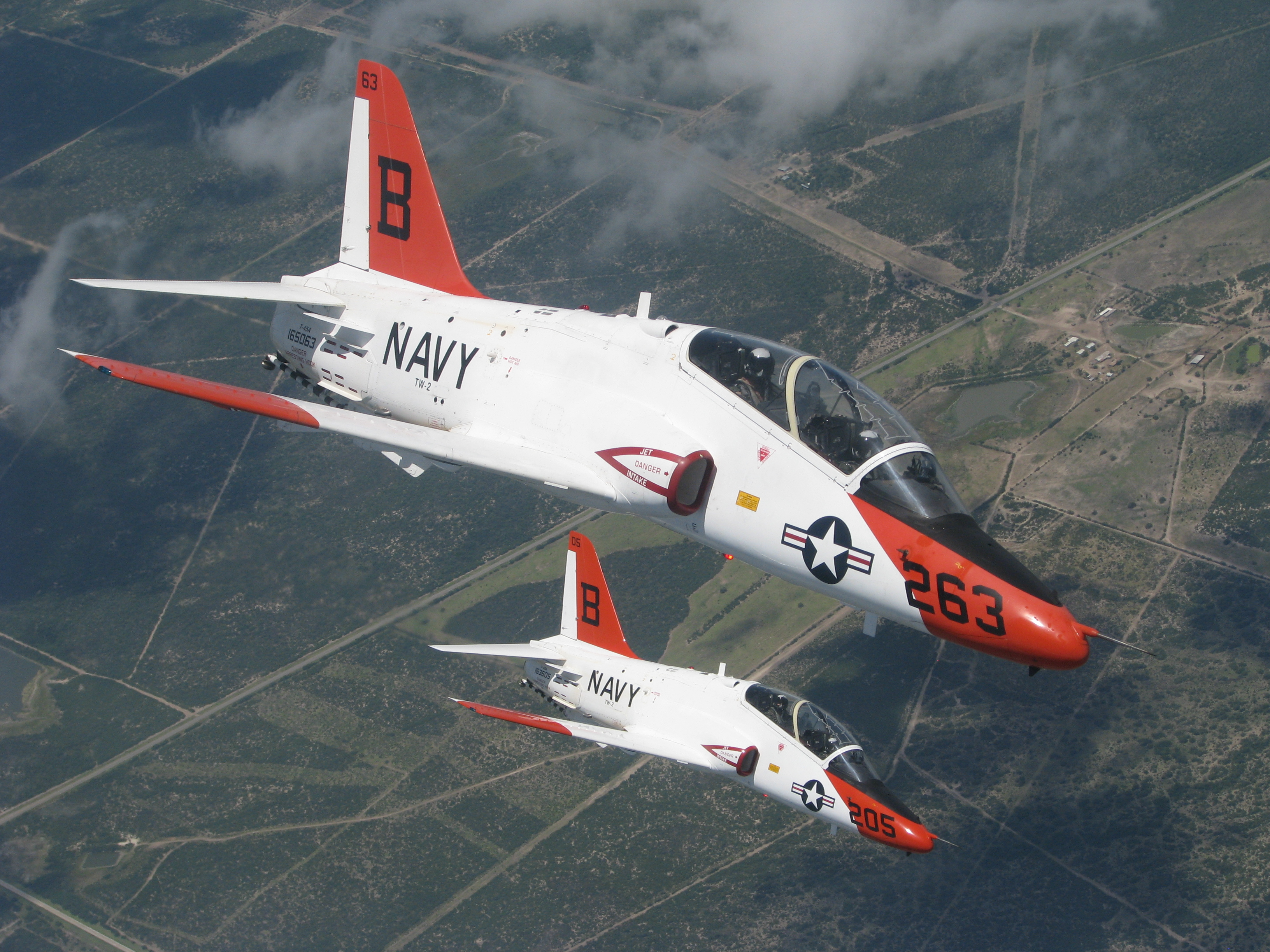 T-45A Goshawks training aircraft cruise together during a recent training flight over the skies of South Texas. The T-45 is a twin-seat, single-engine jet trainer and is the only aircraft in the Navy's inventory used specifically for training pilots to land aboard aircraft carriers.